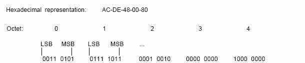 SNAP PDU Protocol Identifier field